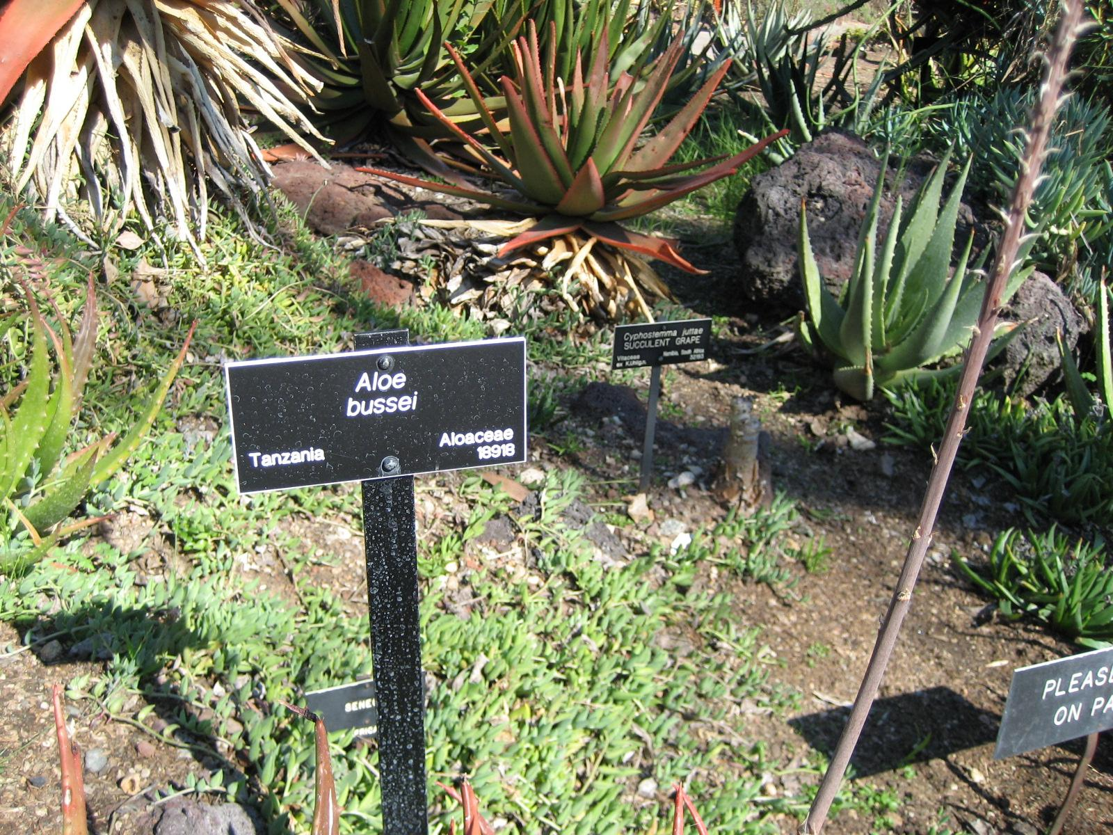 Photographed at Huntington Gardens (Los Angeles) in March